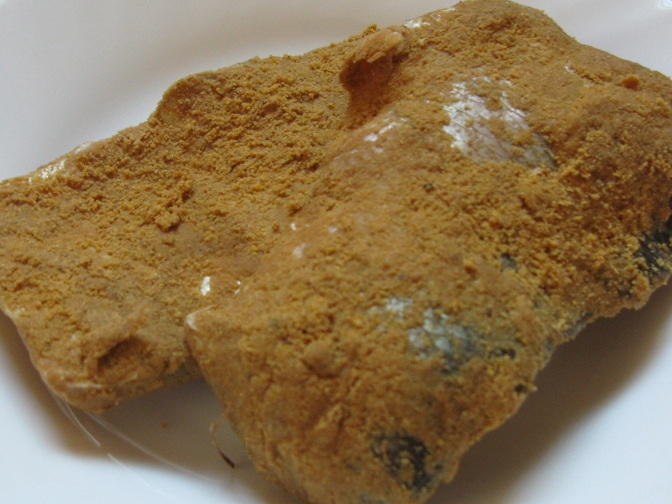 A piece of fermentted fish - a local food of North Vietnam.